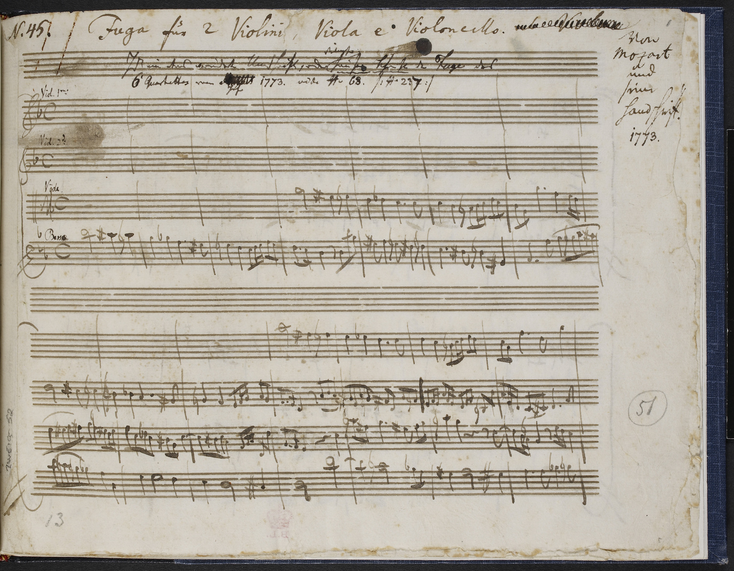 Fuga from quartet in D minor, K. 173. In the composer's hand.